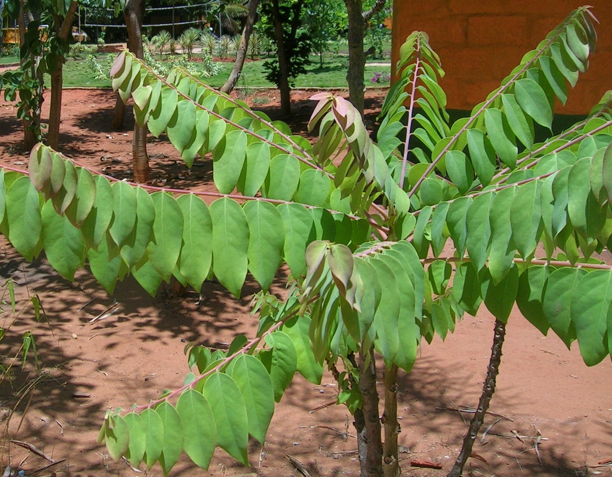 Phyllanthus acidus twig from Karnataka India